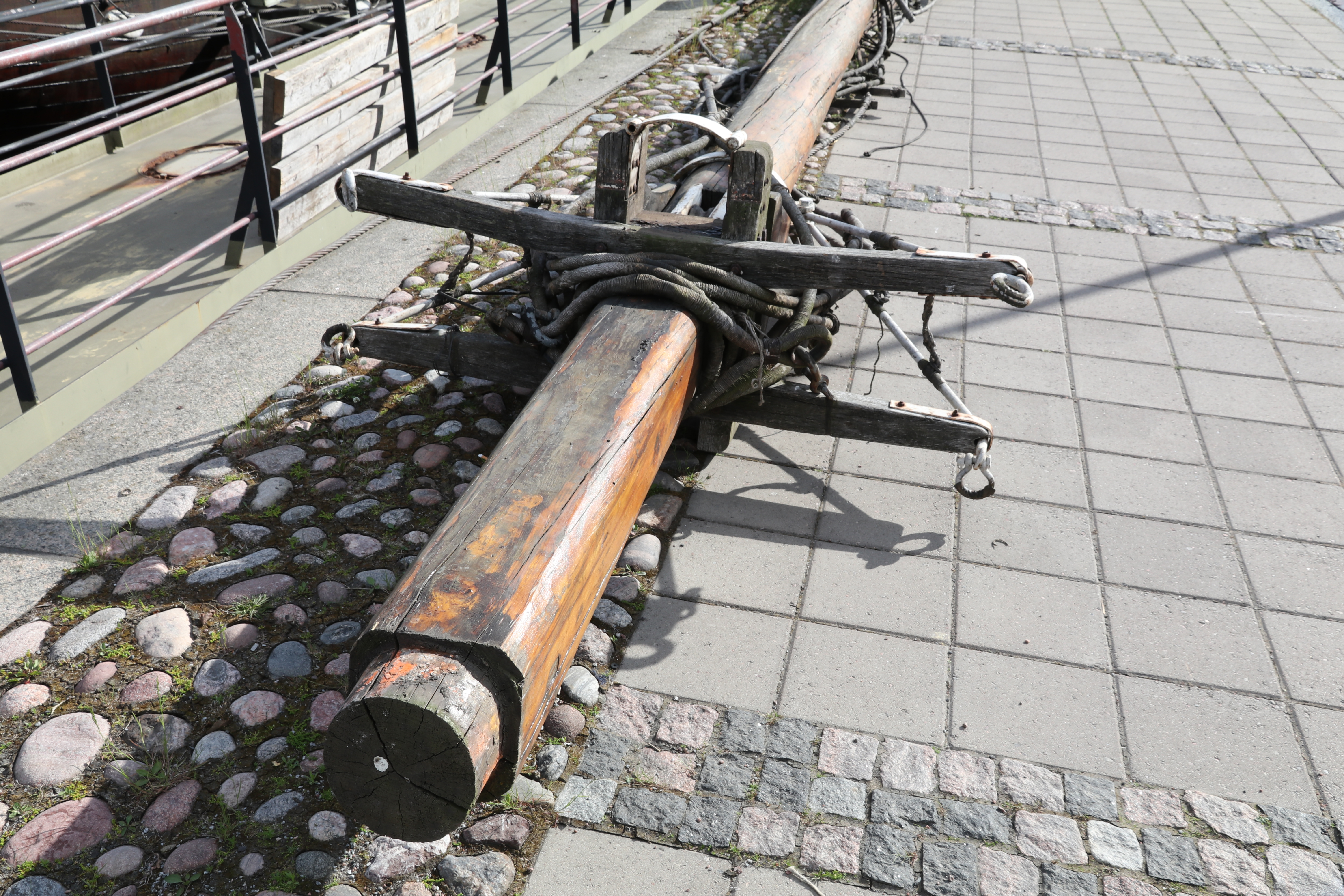 Part of a mast of museum ship Sigyn waiting restauration works.